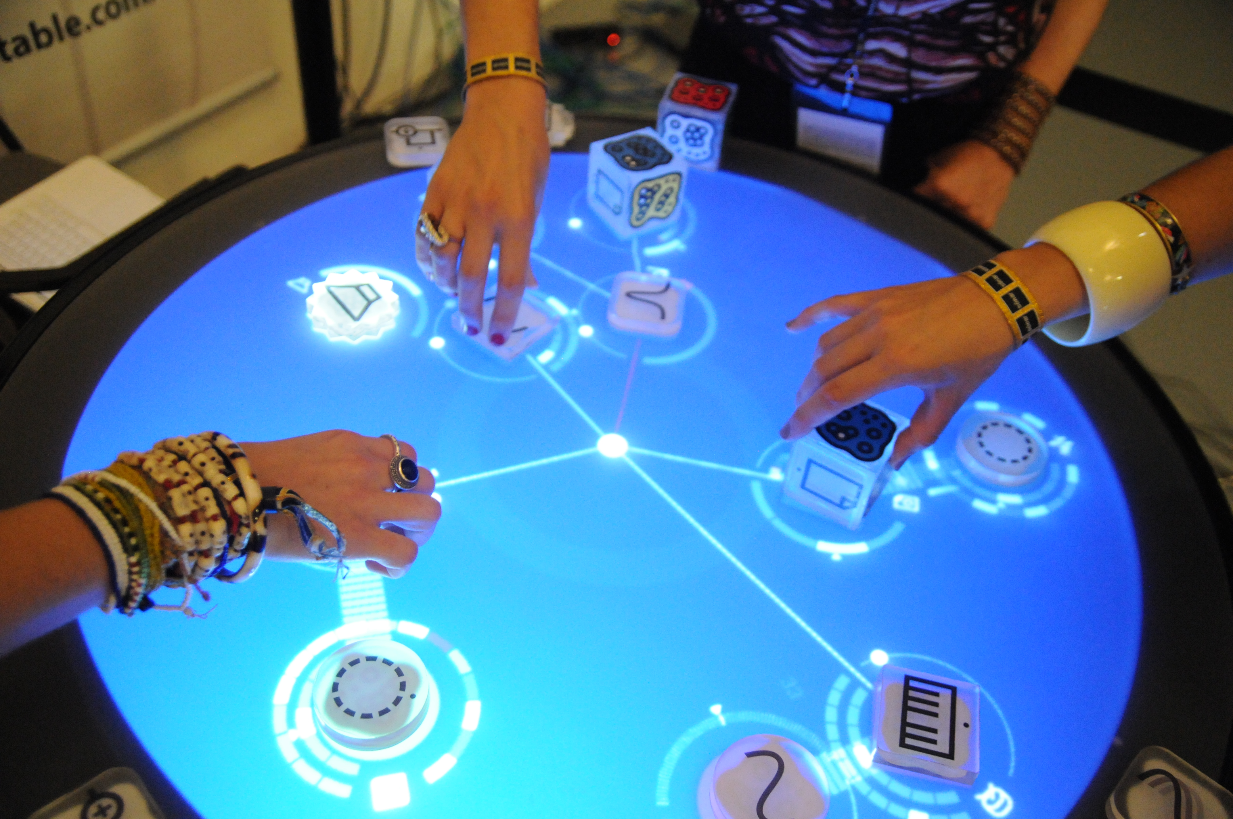 Reactable, Music Hack Day Barcelona 2012